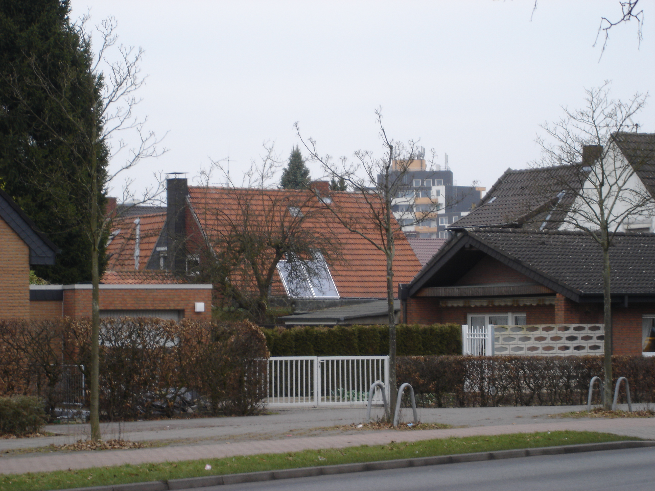 Panorama of the different buildings in Kinderhaus, a borough of Münster, Westphalia, Germany